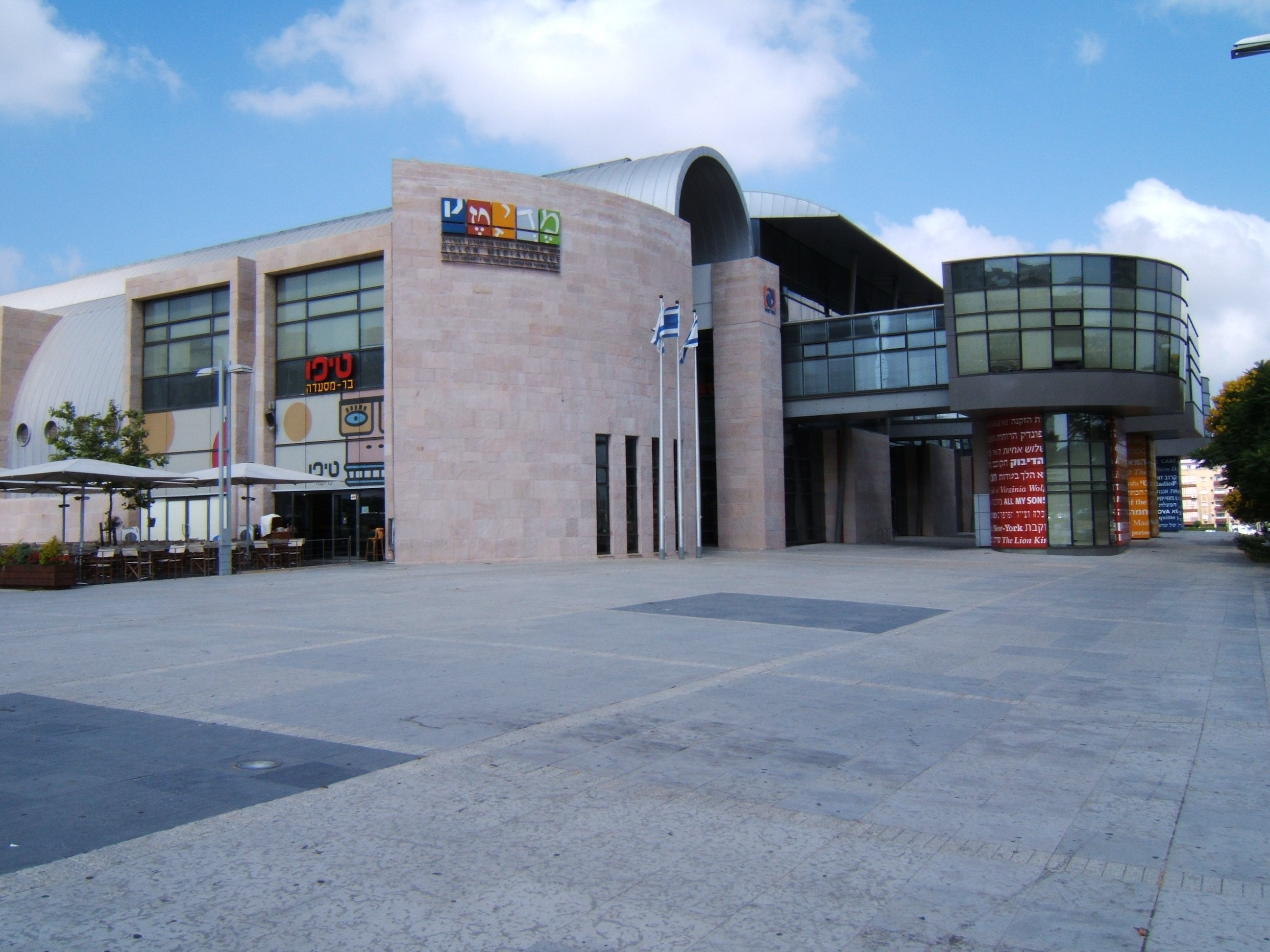 Mediatheque library in Holon